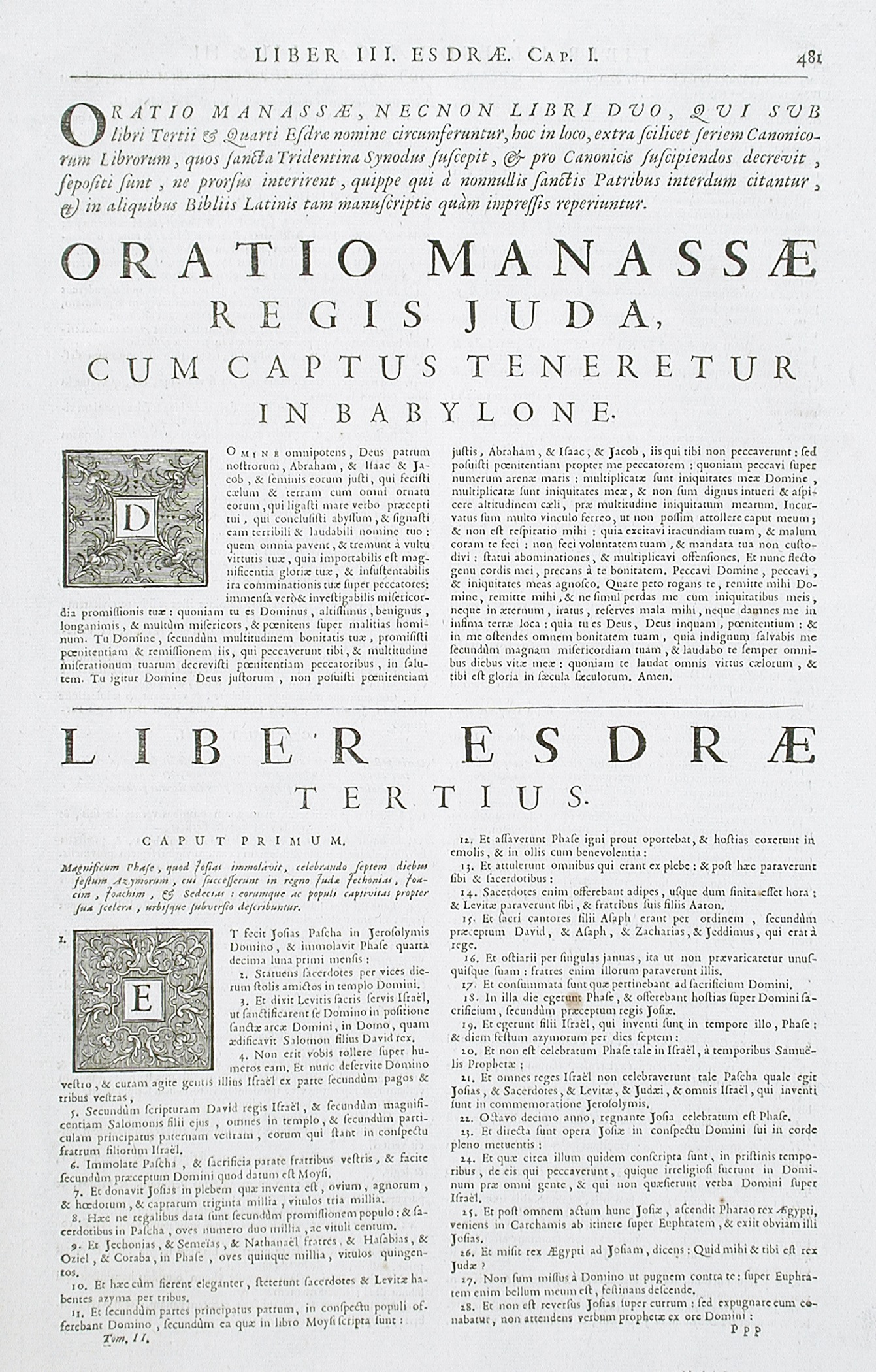 France, circa 1700 Prints Letterpress Gift of Abbey Rents (M.64.3.9) Prints and Drawings